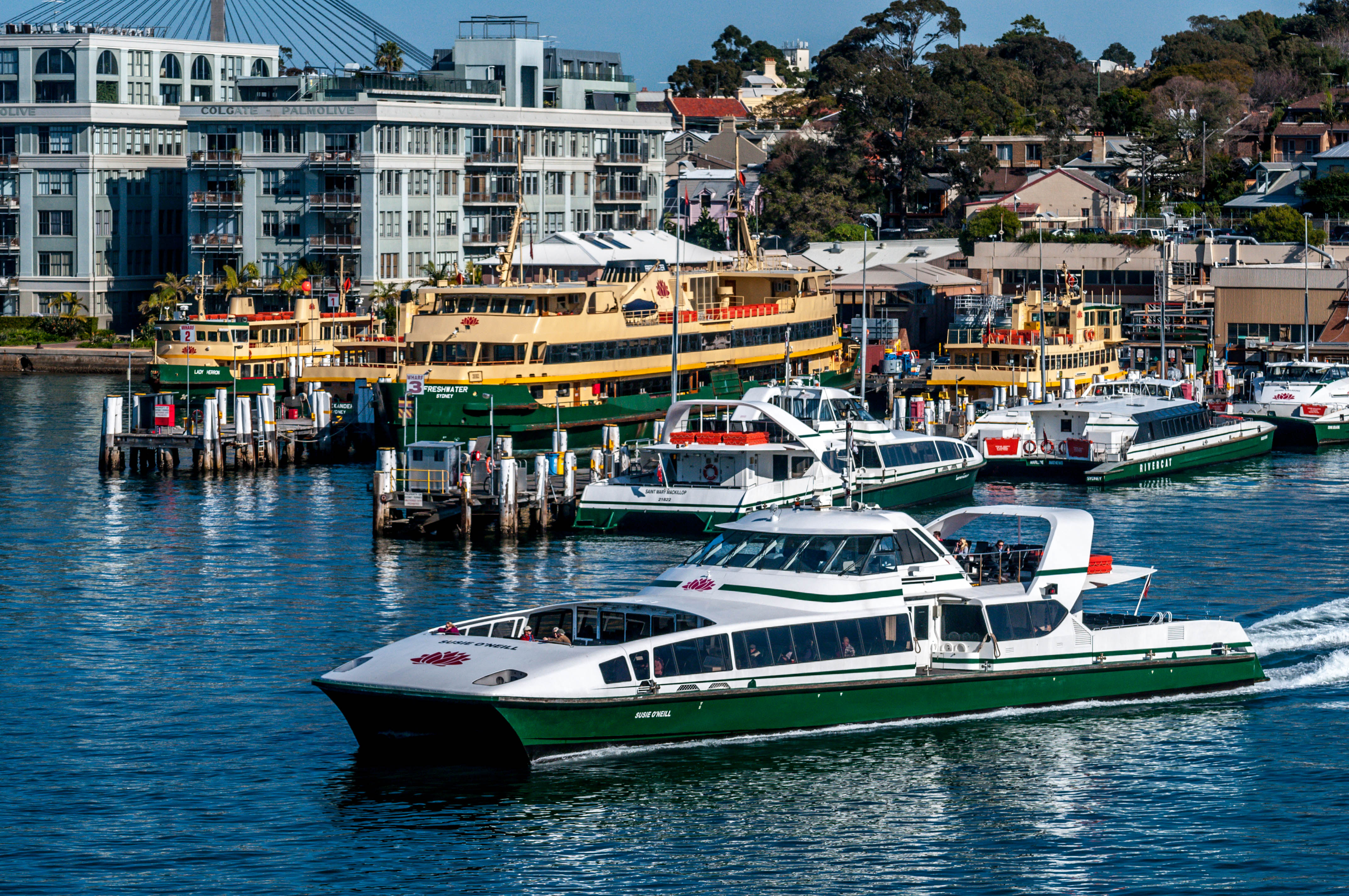 Sydney Ferries’ Maintenance Facility at Balmain Shipyard in Mort Bay